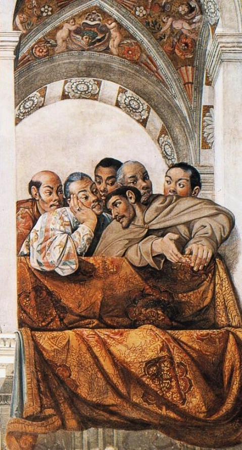 Hasekura, resting his head in his hand, is shown discussion with the Franciscan translator Louis Sotelo in the Sala Regia of the Palazzo Quirinale, Rome.